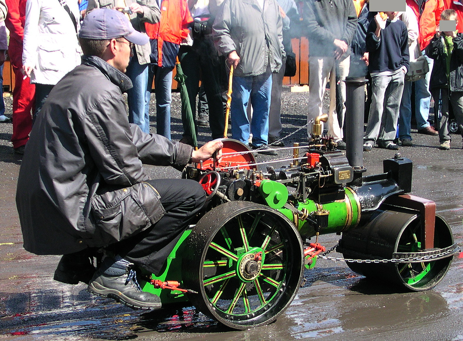 5th steam festival in Bochum, Germany 2007. Model of a Aveling & Porter steam road roller, scale 1:3